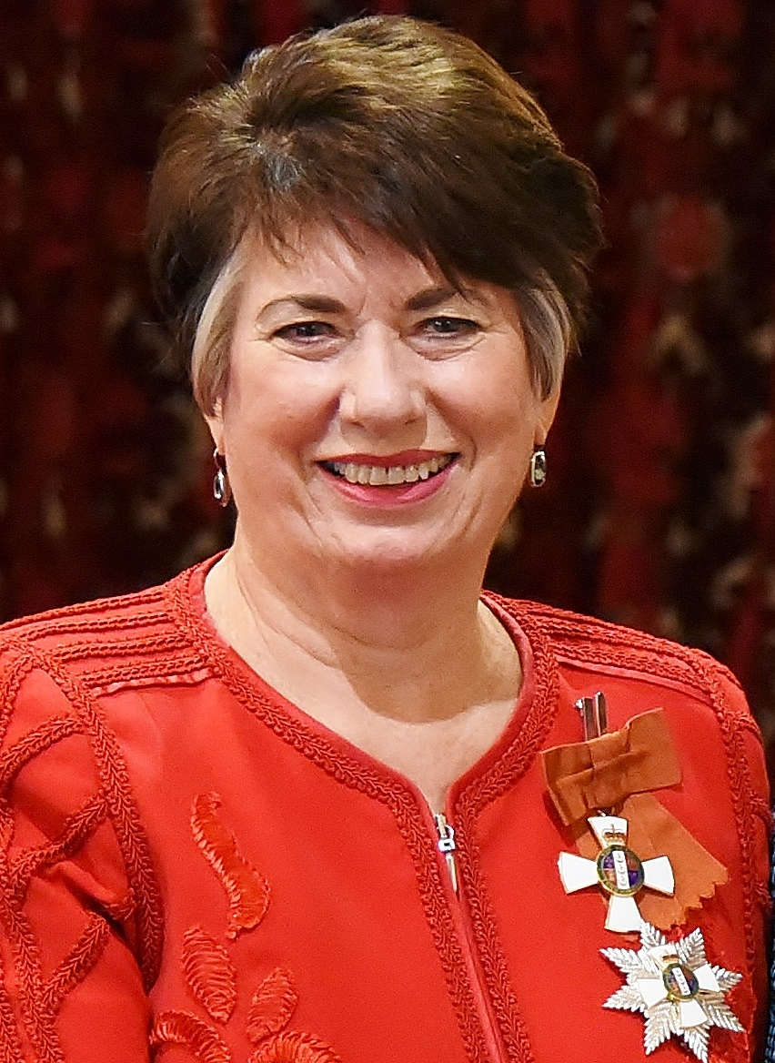 Former Mayor of Wellington Fran Wilde